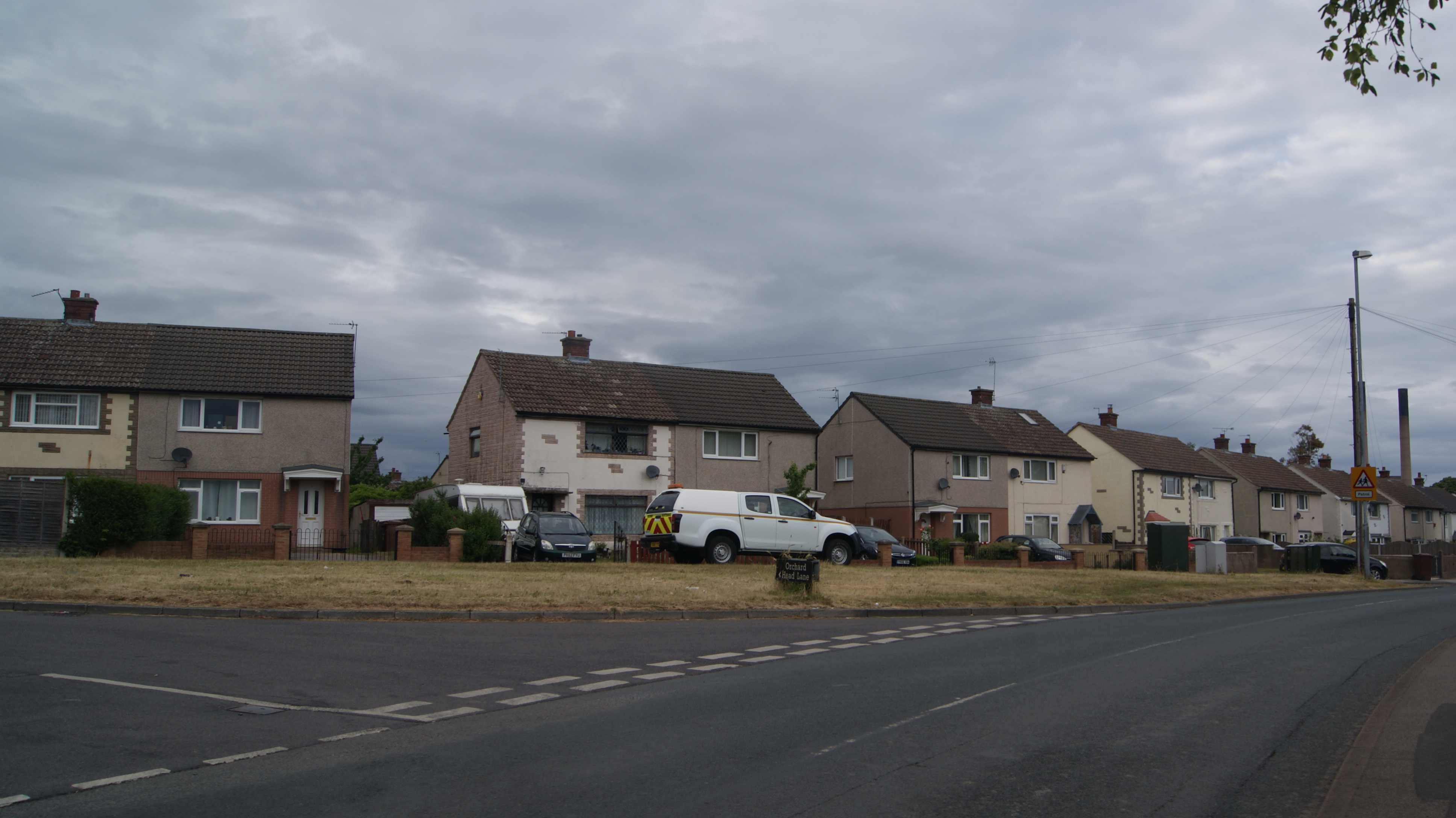 Houses on Ferrybridge Road, Pontefract, West Yorkshire. Taken on the evening of Saturday the 6th of June 2020.